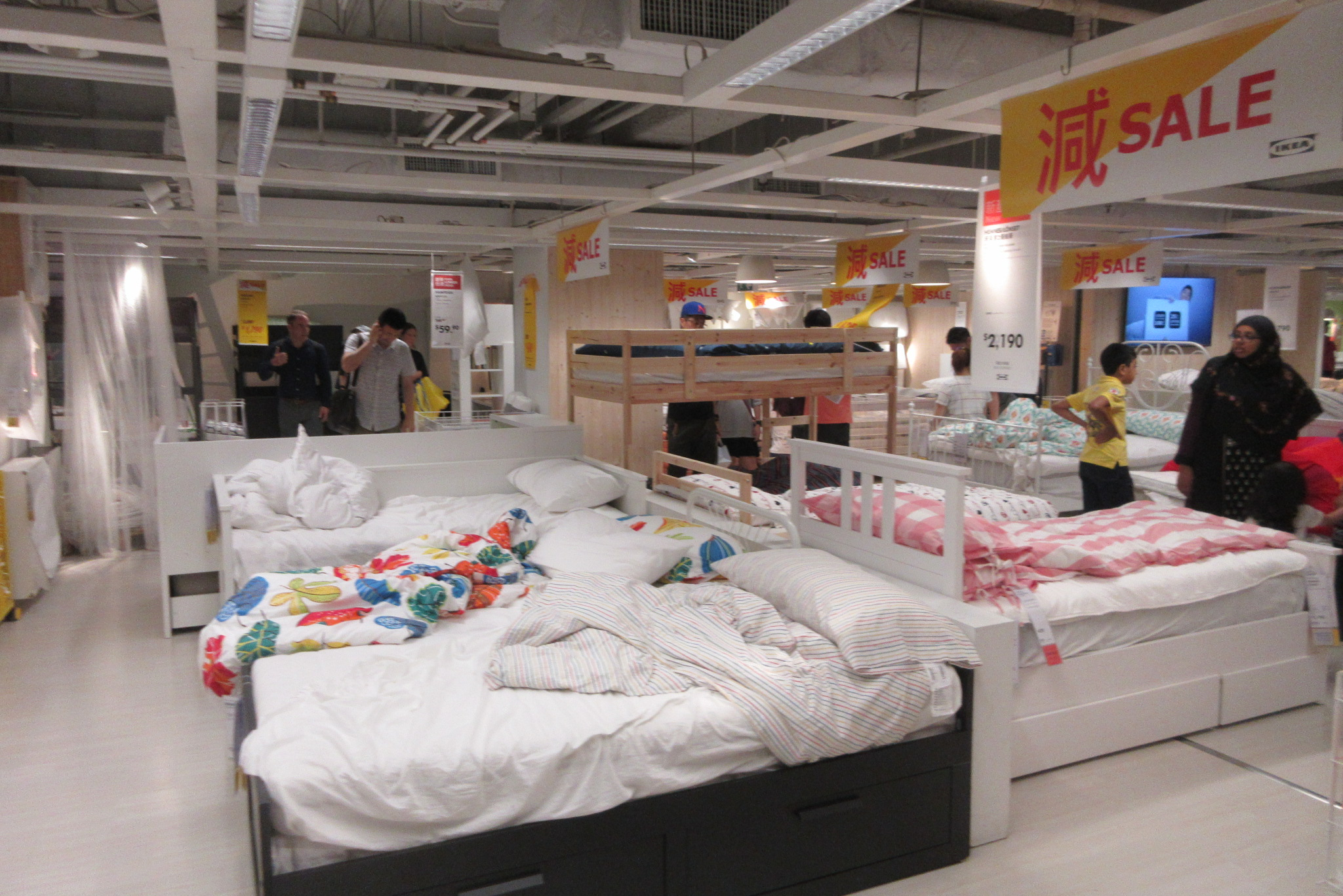 HK 銅鑼灣 CWB 宜家家居 IKEA shop in July 2017